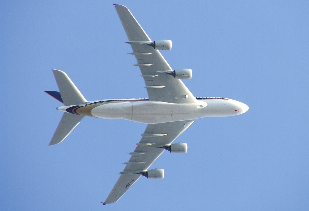 Belly of the Whale... Singapore Airlines Airbus A380 flying over Sydney Olympic Park headed for Singapore in the afternoon sun. Five flap tracks are visible under each wing, each covered by an aerodynamic fairing.